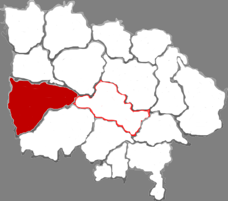 Location of Ji county in Linfen City, China